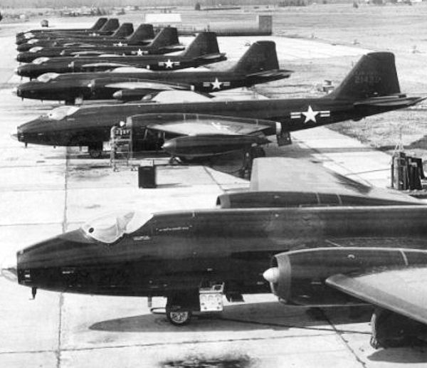 7407th Support Squadron RB-57A-1 aircraft on the flightline at Wiesbaden AB, West Germany, 1956